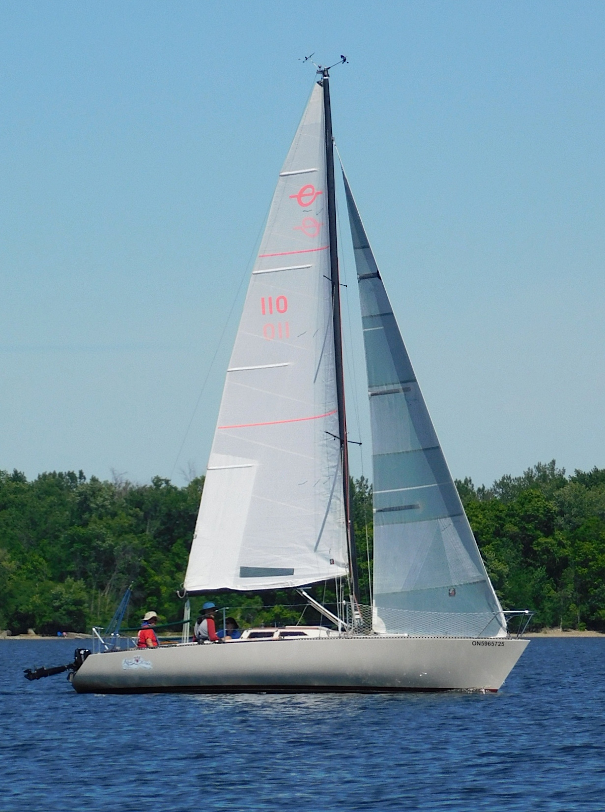 An Express 27 sailboat named Aqua-Pensee.